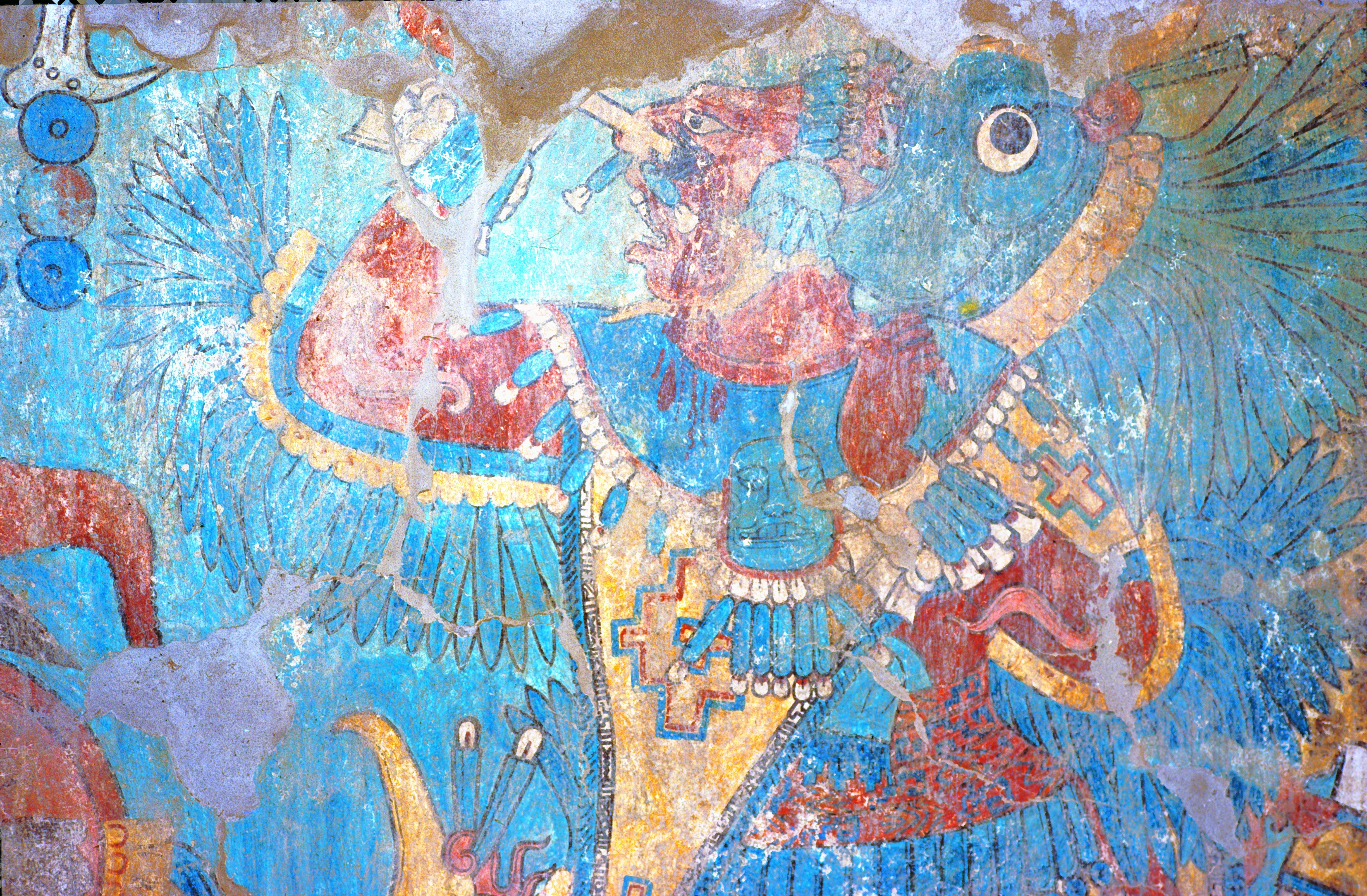 Cacaxtla, Tlaxcala, Mexico. Mural de la batalla